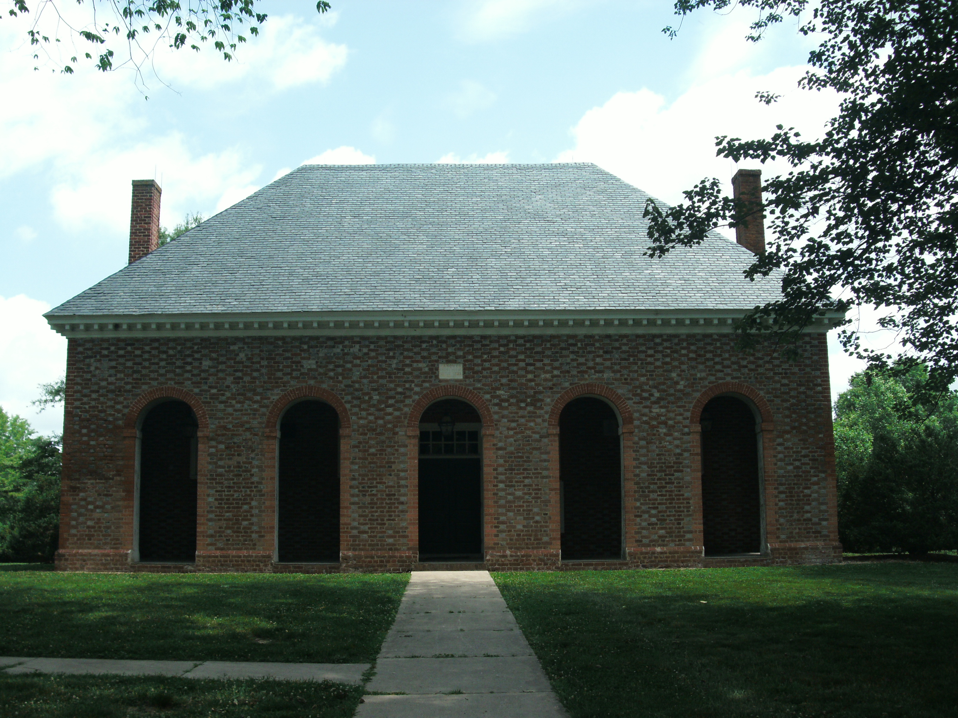 Hanover County Courthouse, Jct. of Rte. 1006 and U.S. 301 Hanover Court House